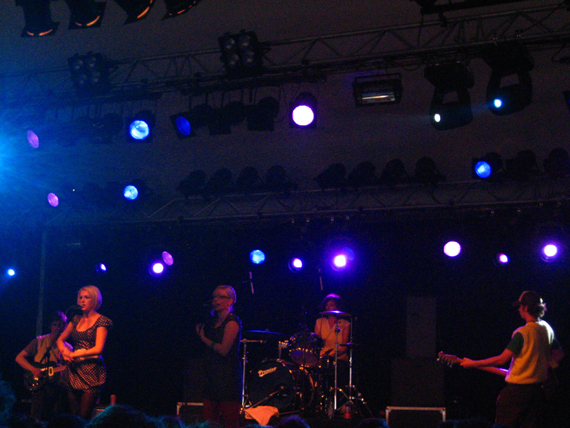 The Pipettes at Pukkelpop 2006